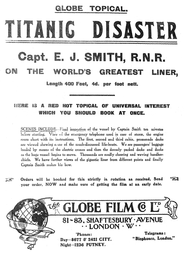 "Titanic Disaster", flyer for cinema owners